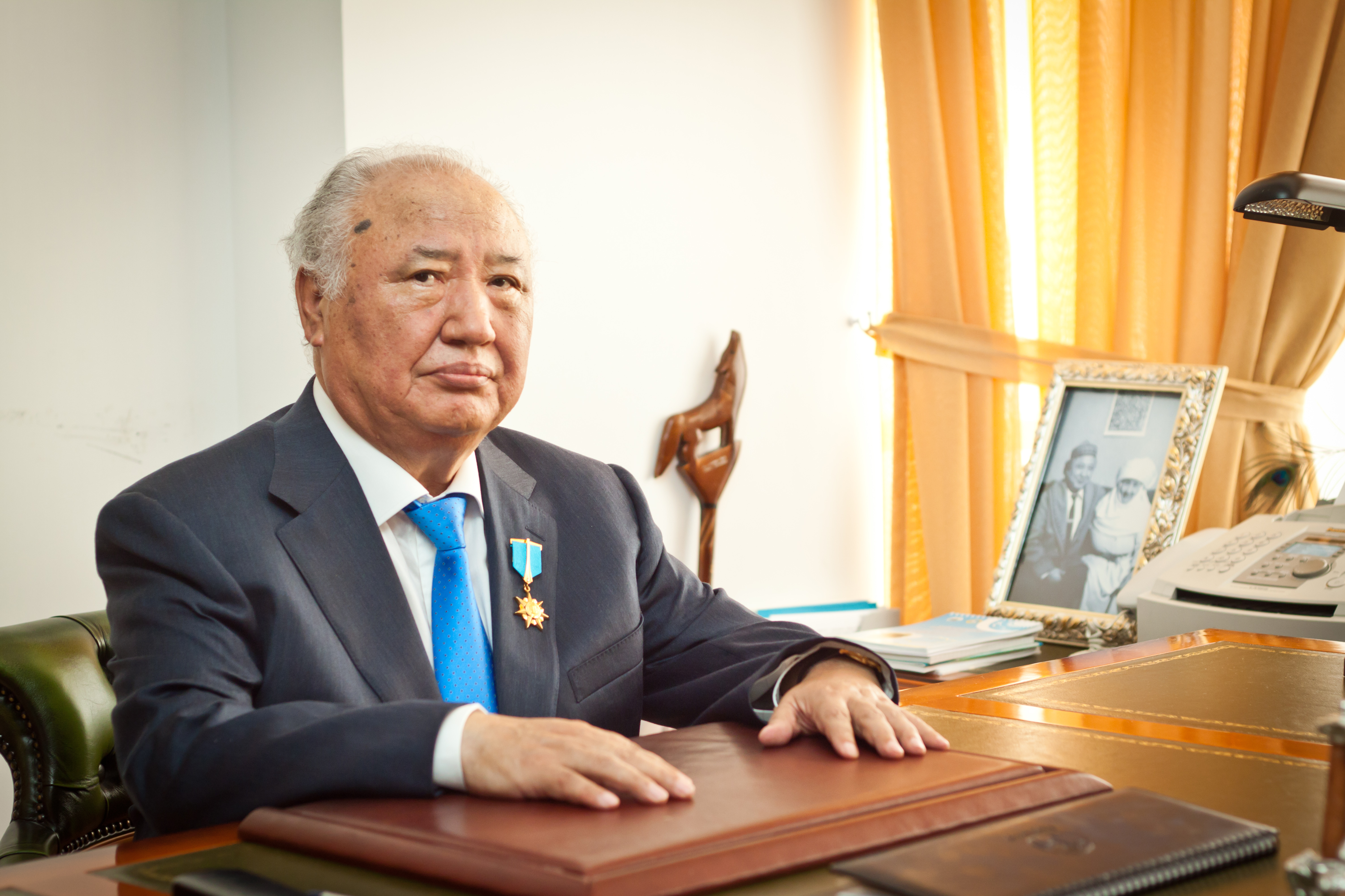 Abish Kekilbayev private family photo archive